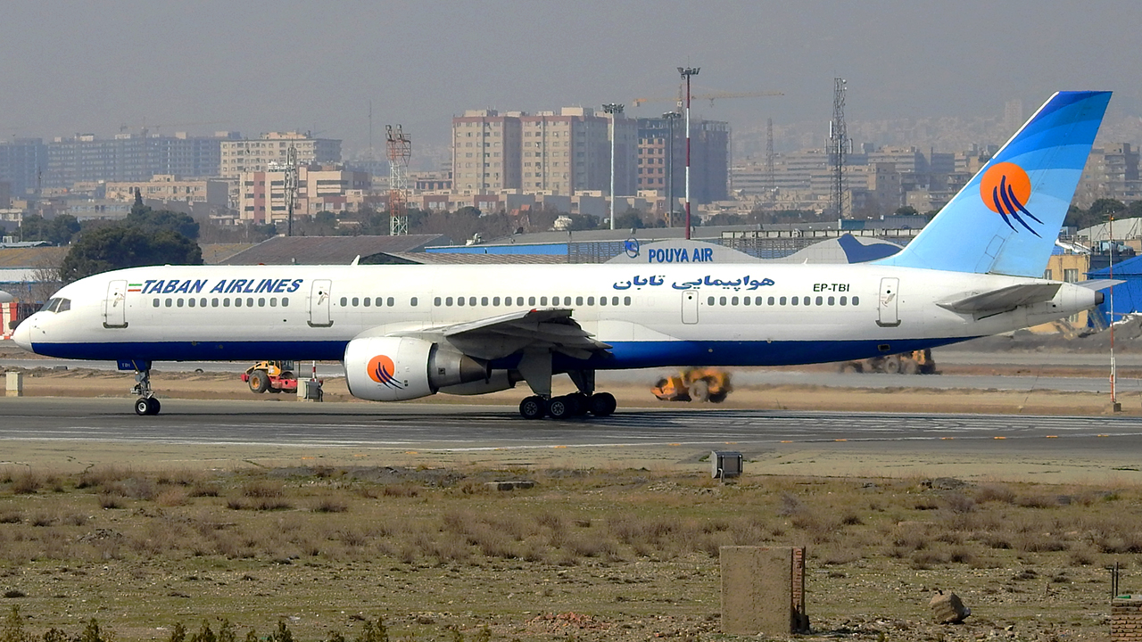 Registration: EP-TBI Airline: Taban Air Aircraft: Boeing 757-2Q8 Airport: Tehran Mehrabad Airport - OIII